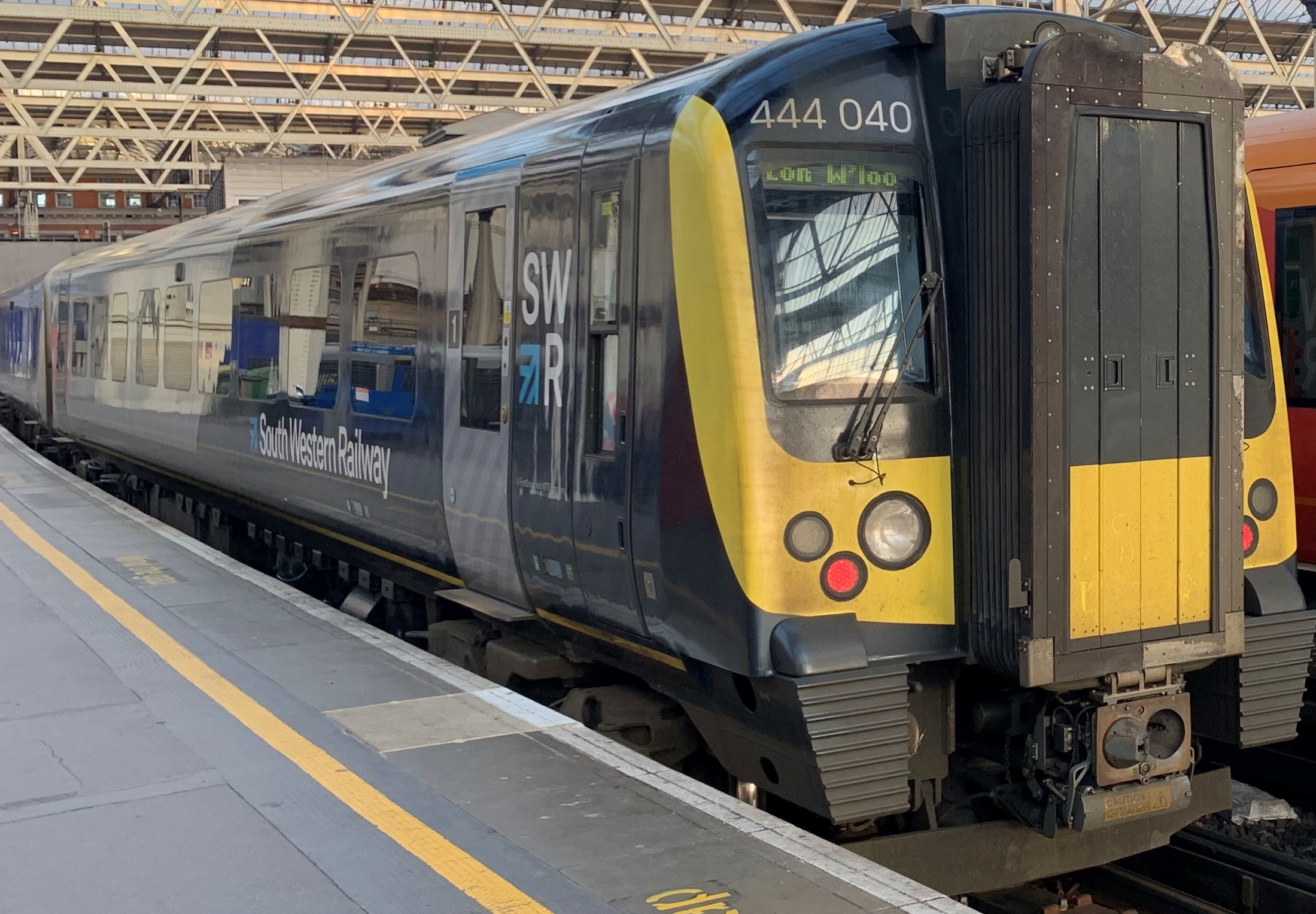 SWR's 444040 in SWR livery waits at London Waterloo to form a service to Weymouth via Southampton on 4th January 2019.